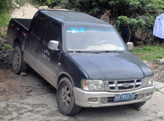 Nanjing Yuejin NJ1022PBS2, an Isuzu-based pickup truck, no longer in production as of 2008. It has a 2088cc four-cylinder diesel engine with 46kW, built by Yangzhou Diesel Engine Co., Ltd. (YZ485ZLQ). See here for more info.